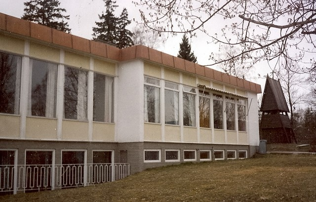 Grinilund church in Bærum, Norway